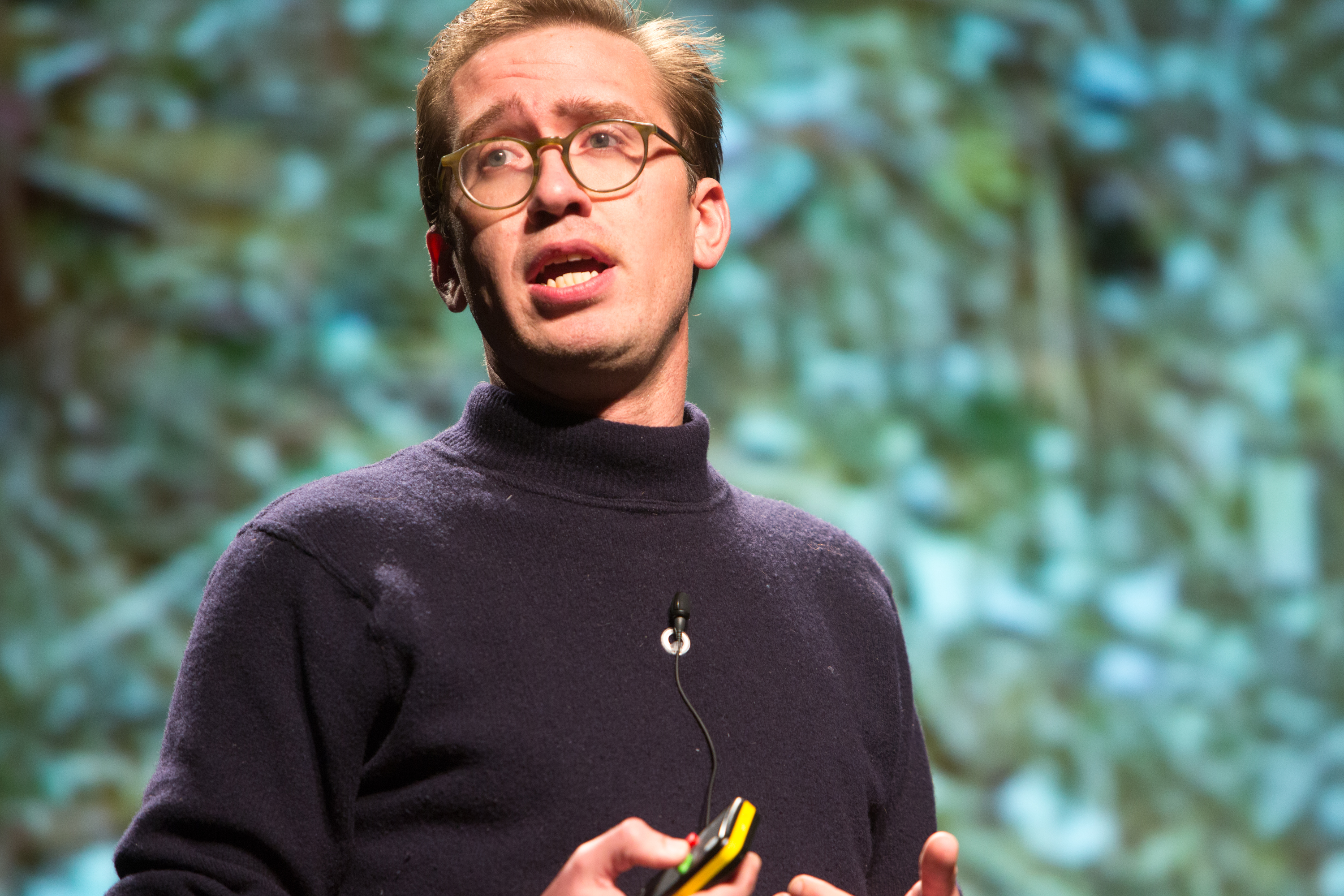 Nathaniel Raymond - PopTech 2013 - Camden, ME